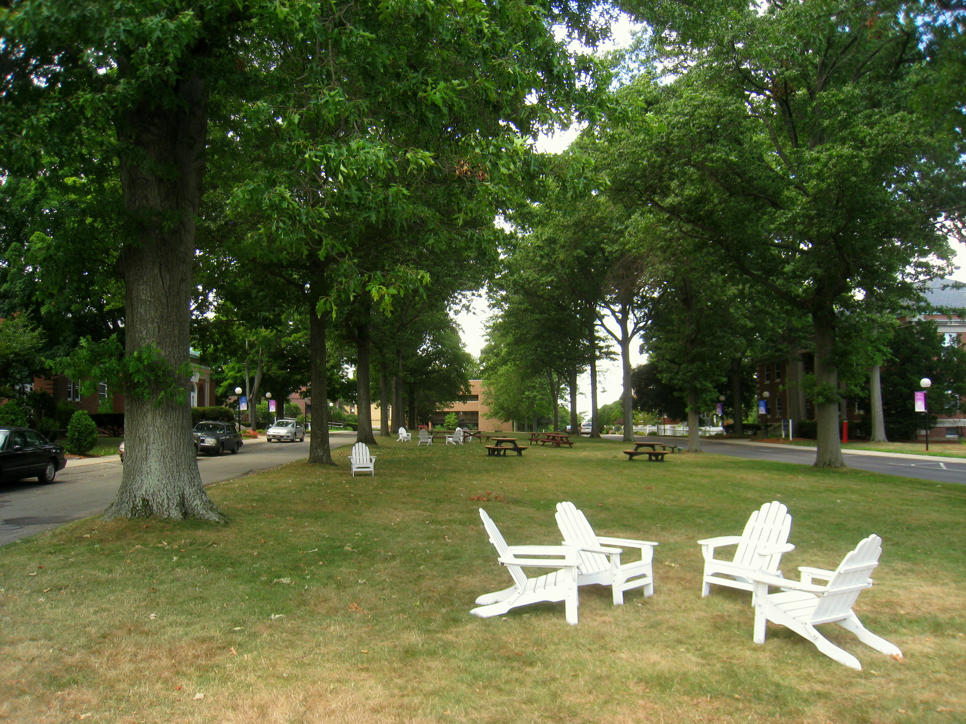 Andover Newton Theological School, 210 Herrick Road, Newton Centre, Massachusetts, USA.